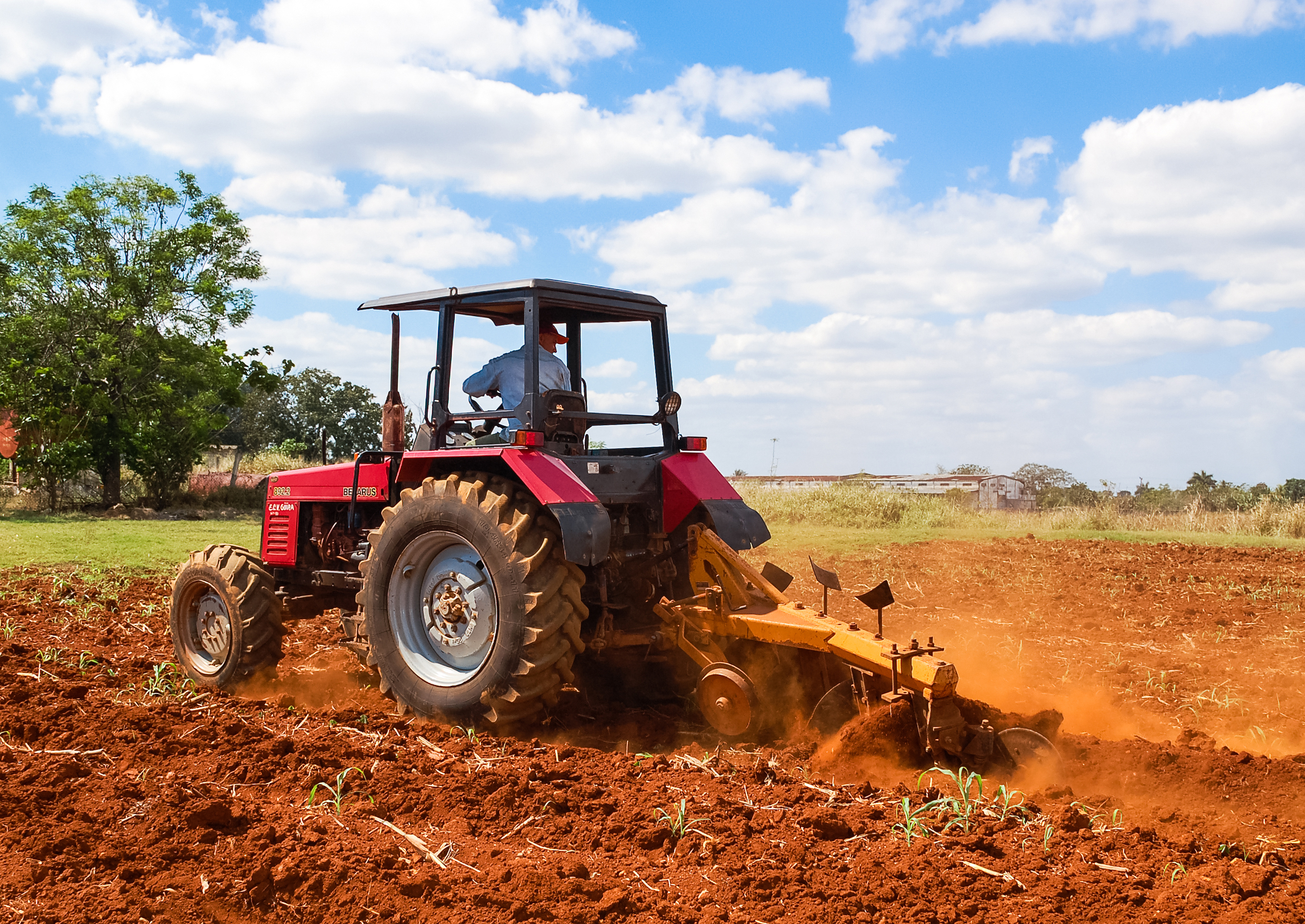 Belarus 892 Tractor plowing the land for cultivation.